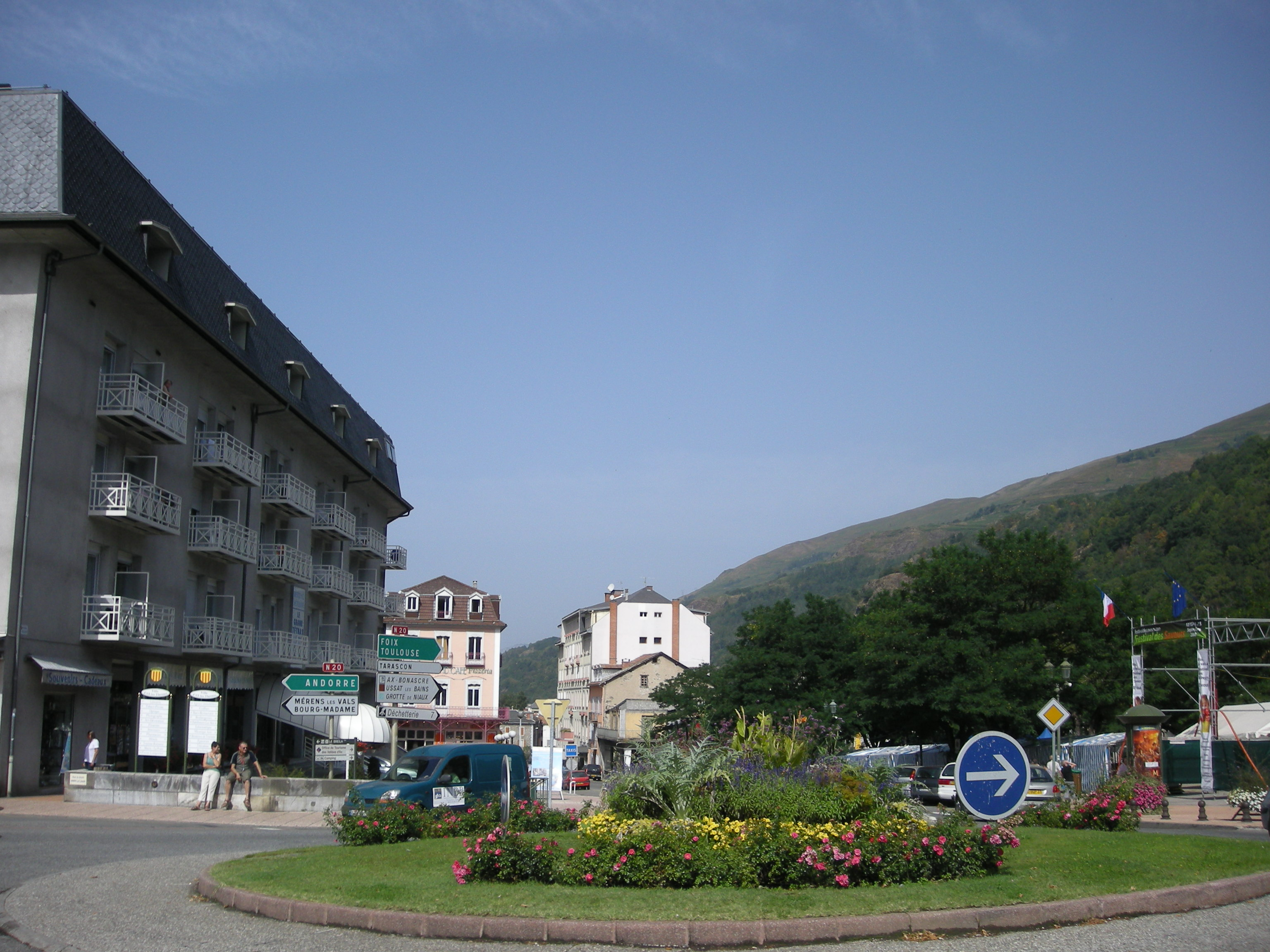 City centre of Ax-les-Thermes, Ariège, France.